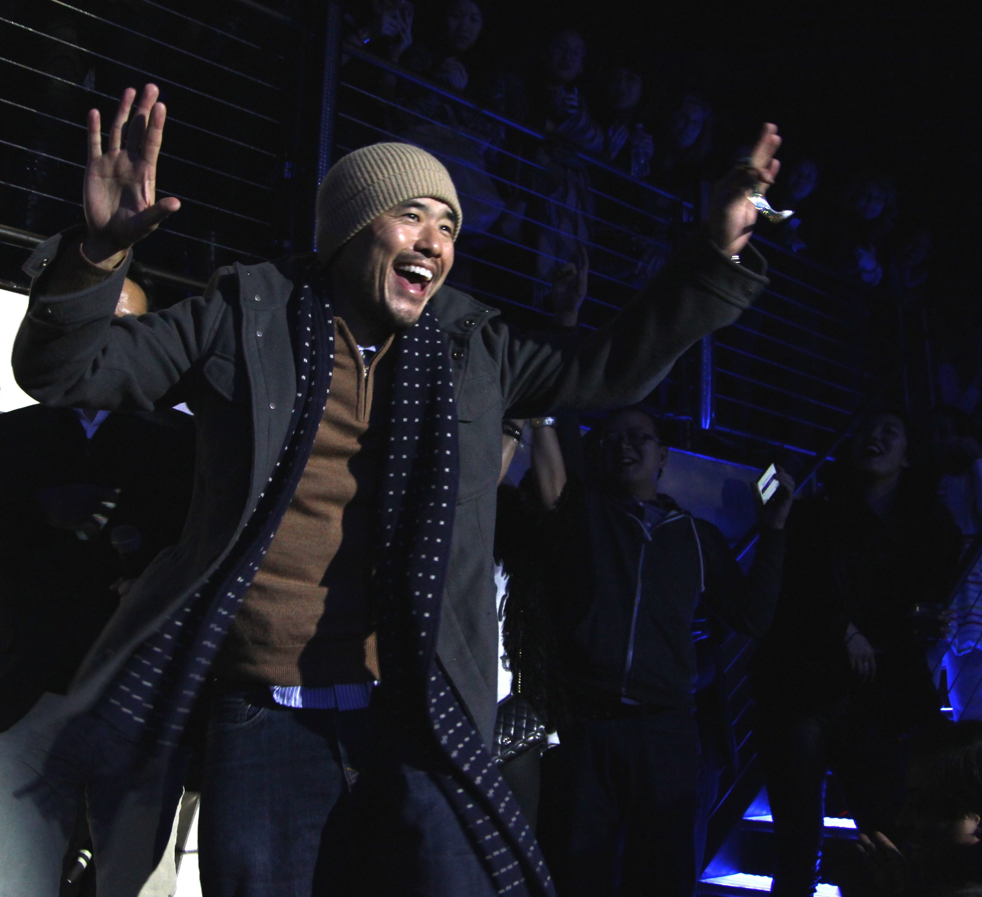 Randall Park at The #FreshOffTheBoat Viewing Party at The Circle NYC on February 4, 2015. Photo by Lia Chang